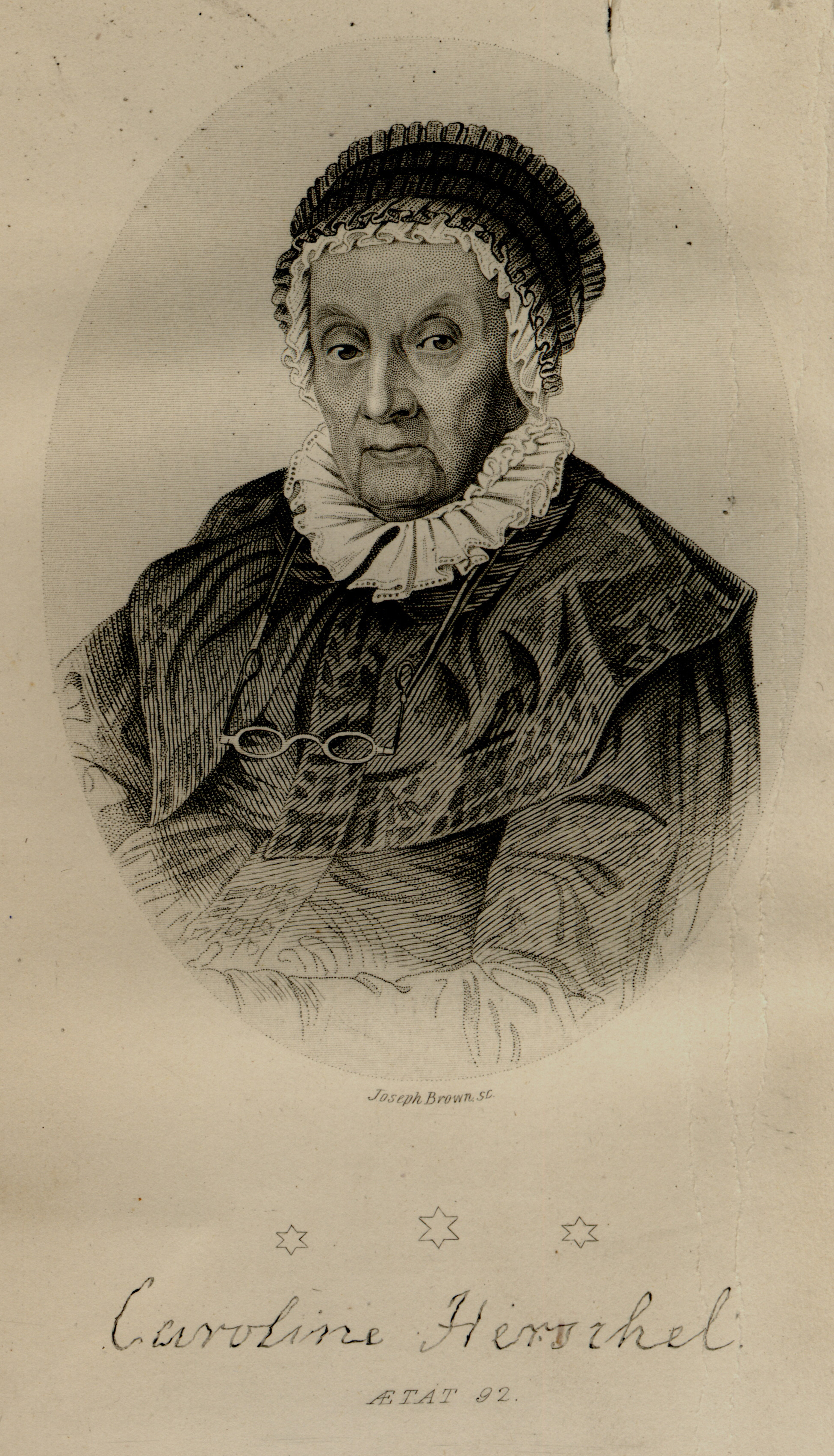 Frontispiece from "Memoir and Correspondence of Caroline Herschel" by Mrs. John Herschel, -1876. London: John Murray, Albemarle Street, 1876.